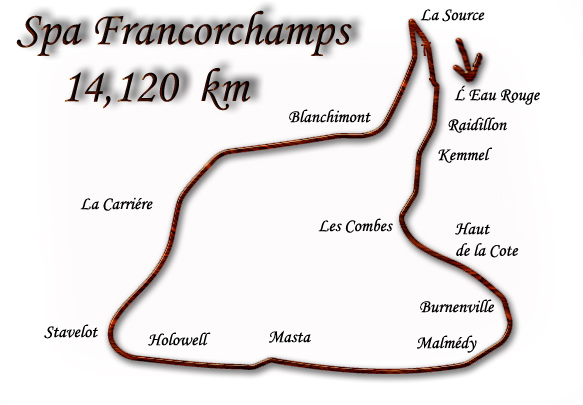 Diagram of the Spa-Francorchamps circuit, which hosted the Belgian Grand Prix from 1950 to 1954.